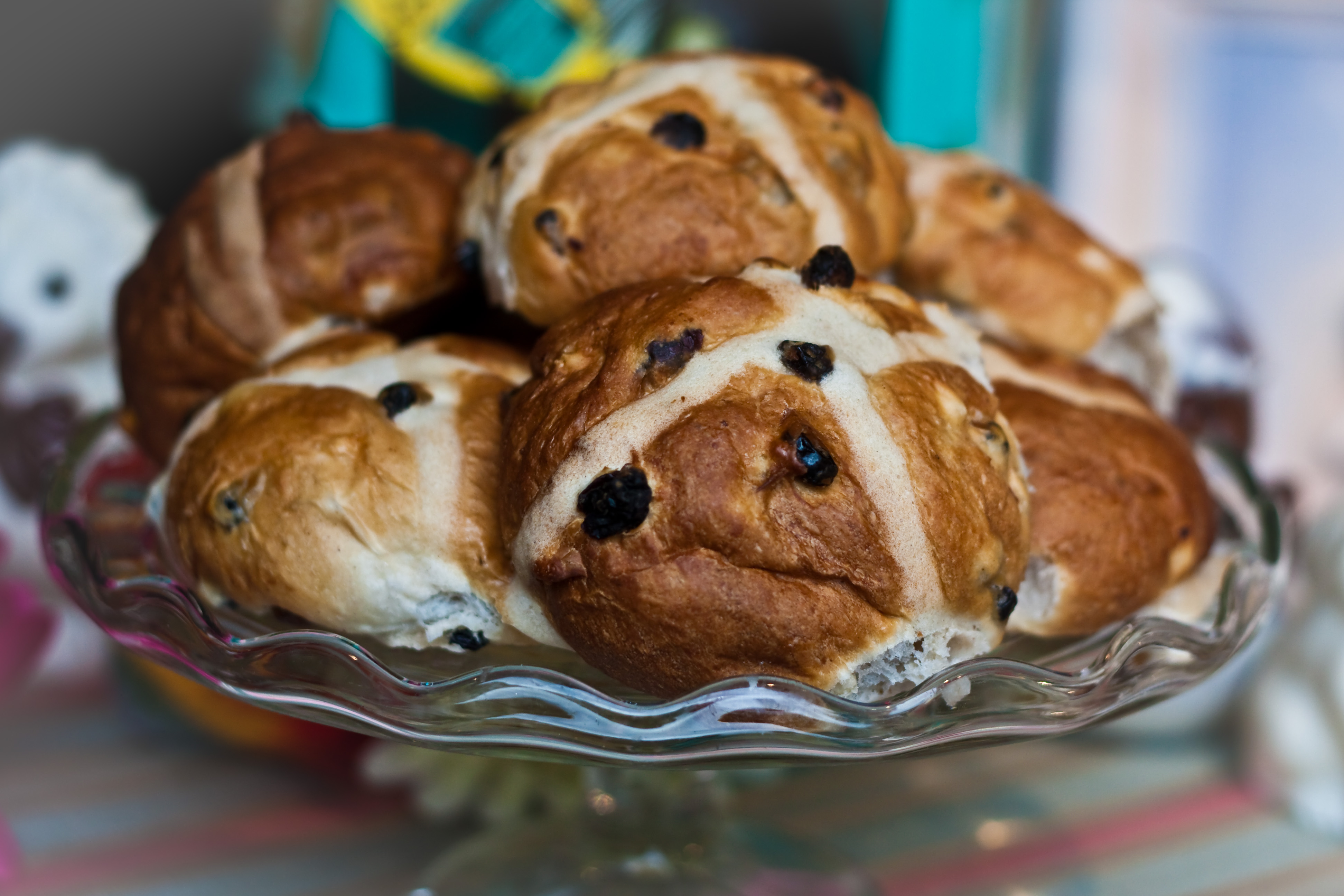 Seen in the window of Fortnum & Mason in Piccadilly.